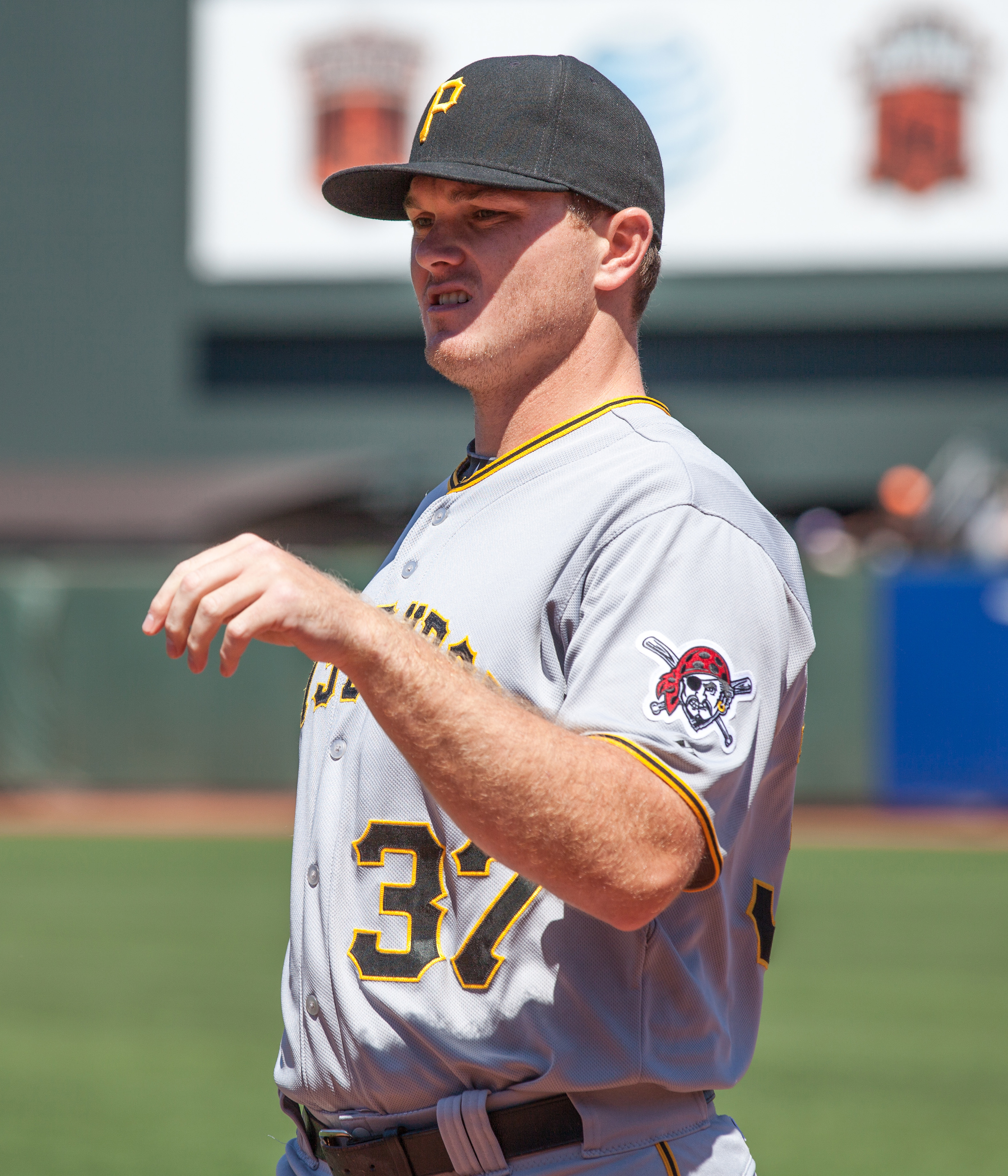 Justing Wilson